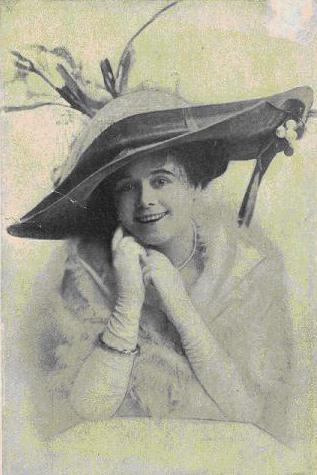 Vaudeville Entertainer Carrie De Mar